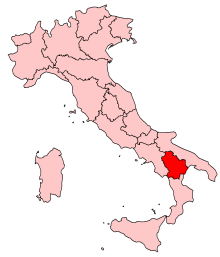 Map of the regions of Italy with the individual region highlighted